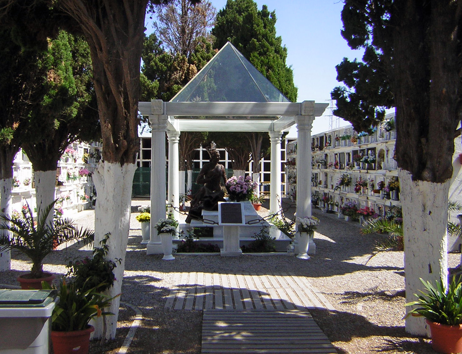 Spainsh Singer Rocio Jurado mausoleum in Chipiona, Cádiz, Spain